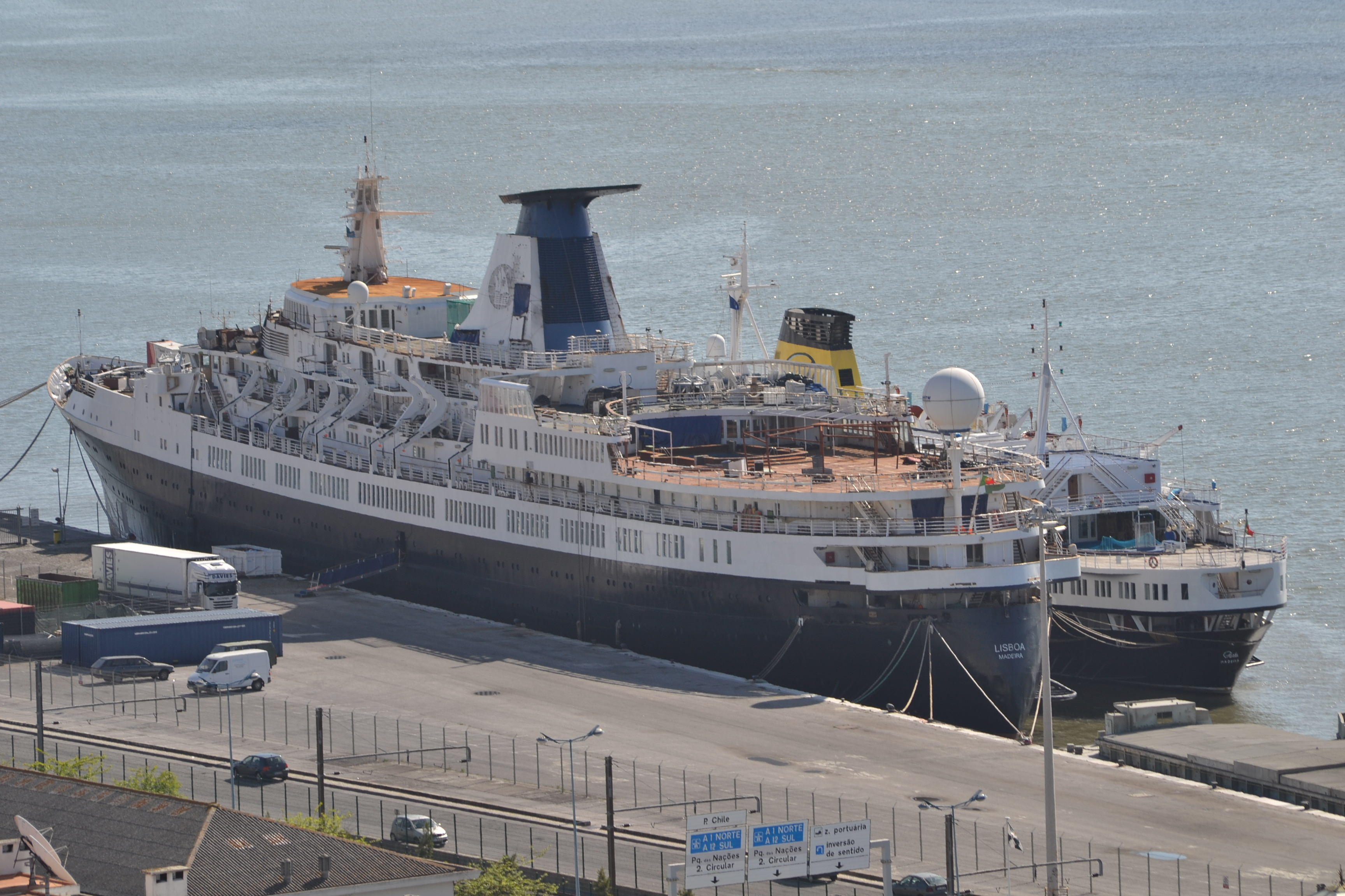 The cruises ships Lisboa (with white funnel) and Porto (with the yellow funnel) moored at Lisboa during their renovations by Portuscale Cruises.